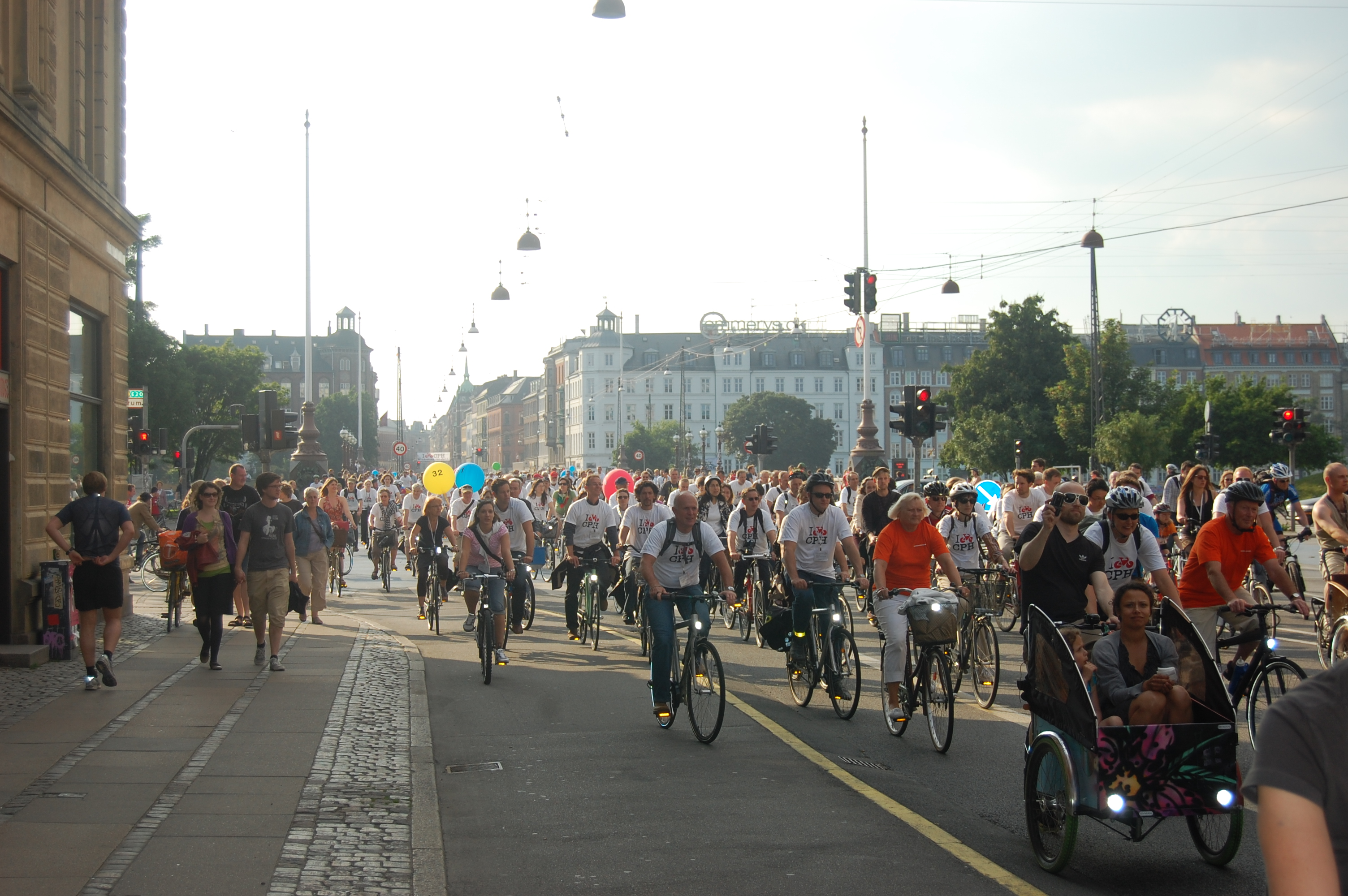 BIke Parade during Velo-city Global 2010 in Copenhagen, Denmark